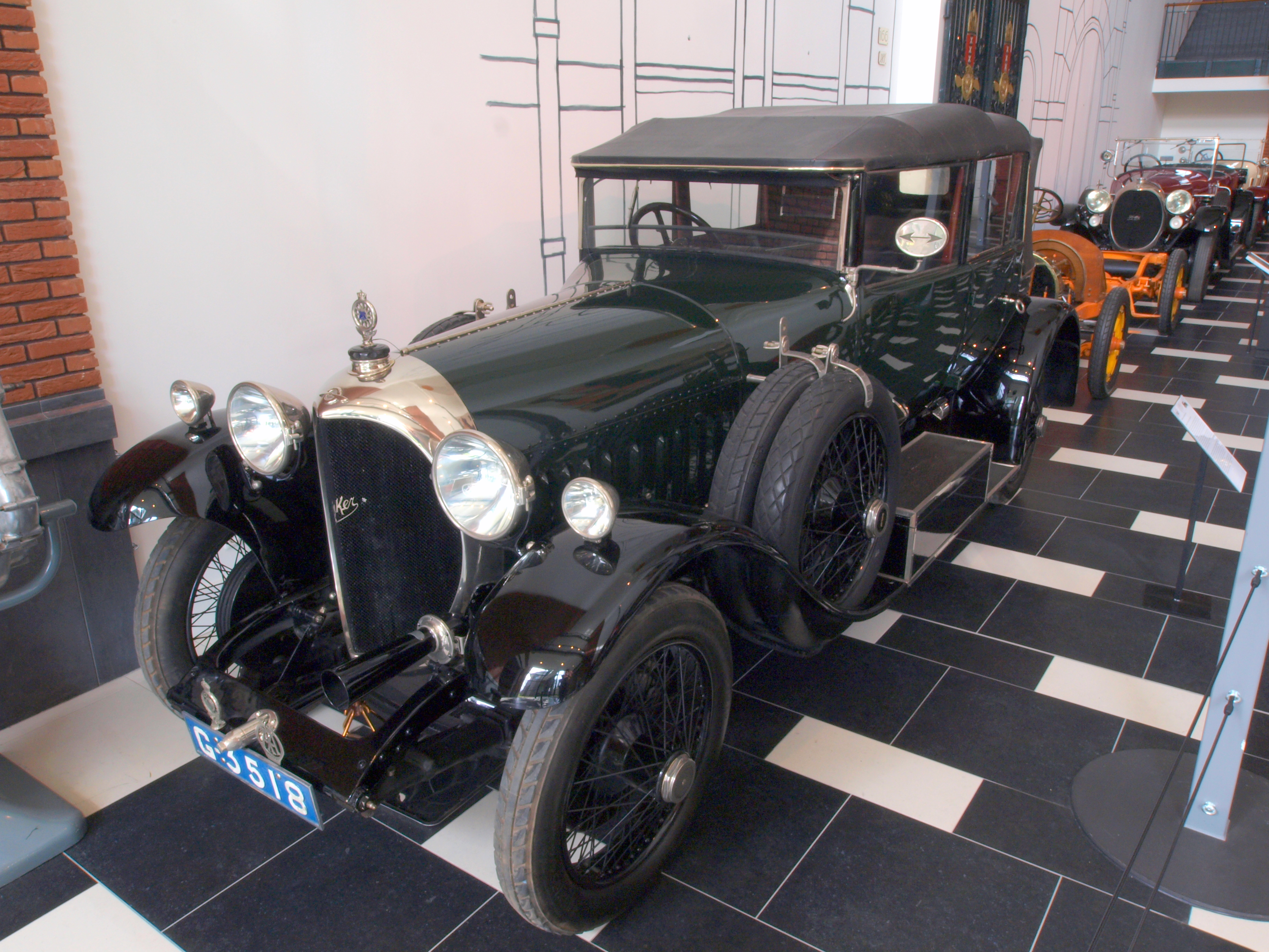 Photographed at the Louwman museum / Louwman Collection, The Netherlands.